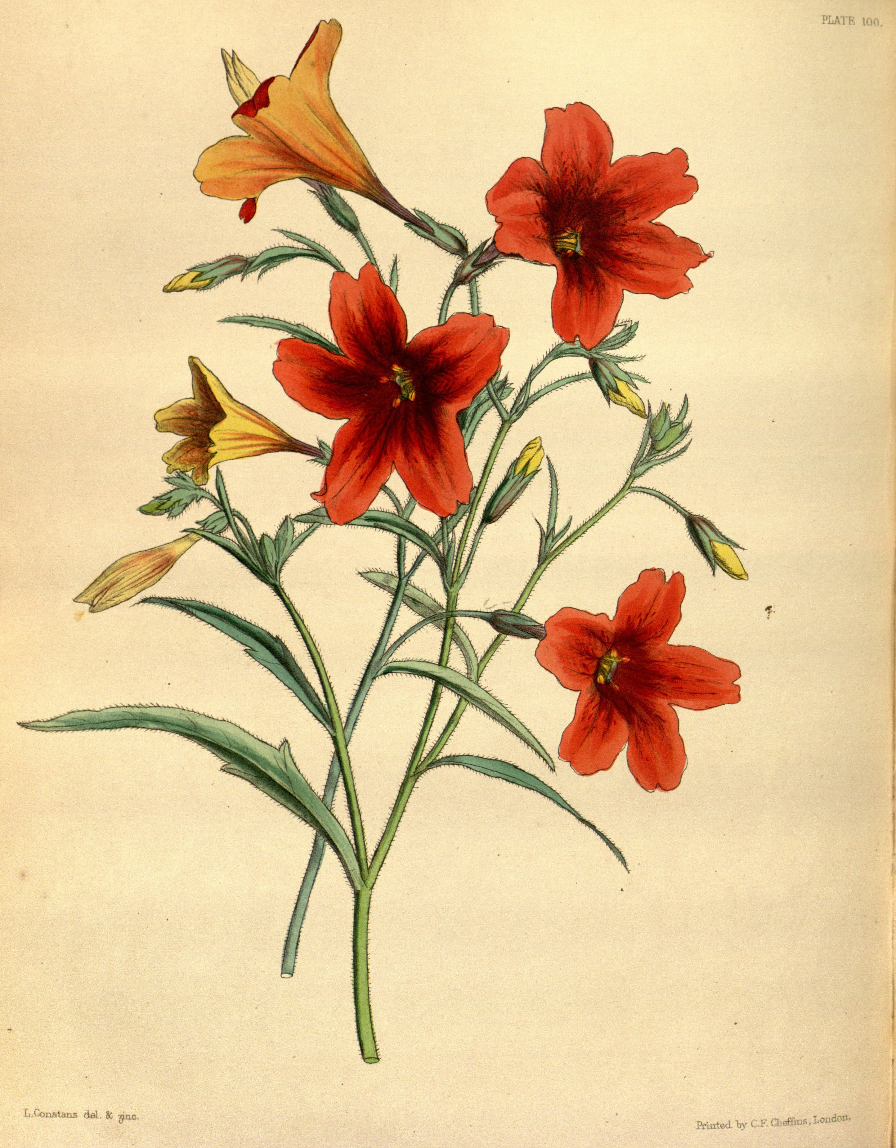 Salpiglossis sinuata Ruiz & Pav., syn. Salpiglossis coccinea Lindl. & Paxton